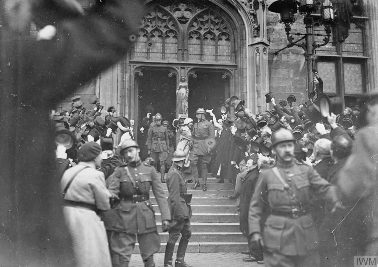 Belgium in the First World War King Albert I and Queen Elisabeth of the Belgium cheered by the crowd in Bruges.